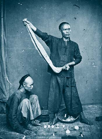 Street Gamblers, circa 1868 - 1871. Modern albumen print from wet-collodion negative, by John Thomson.